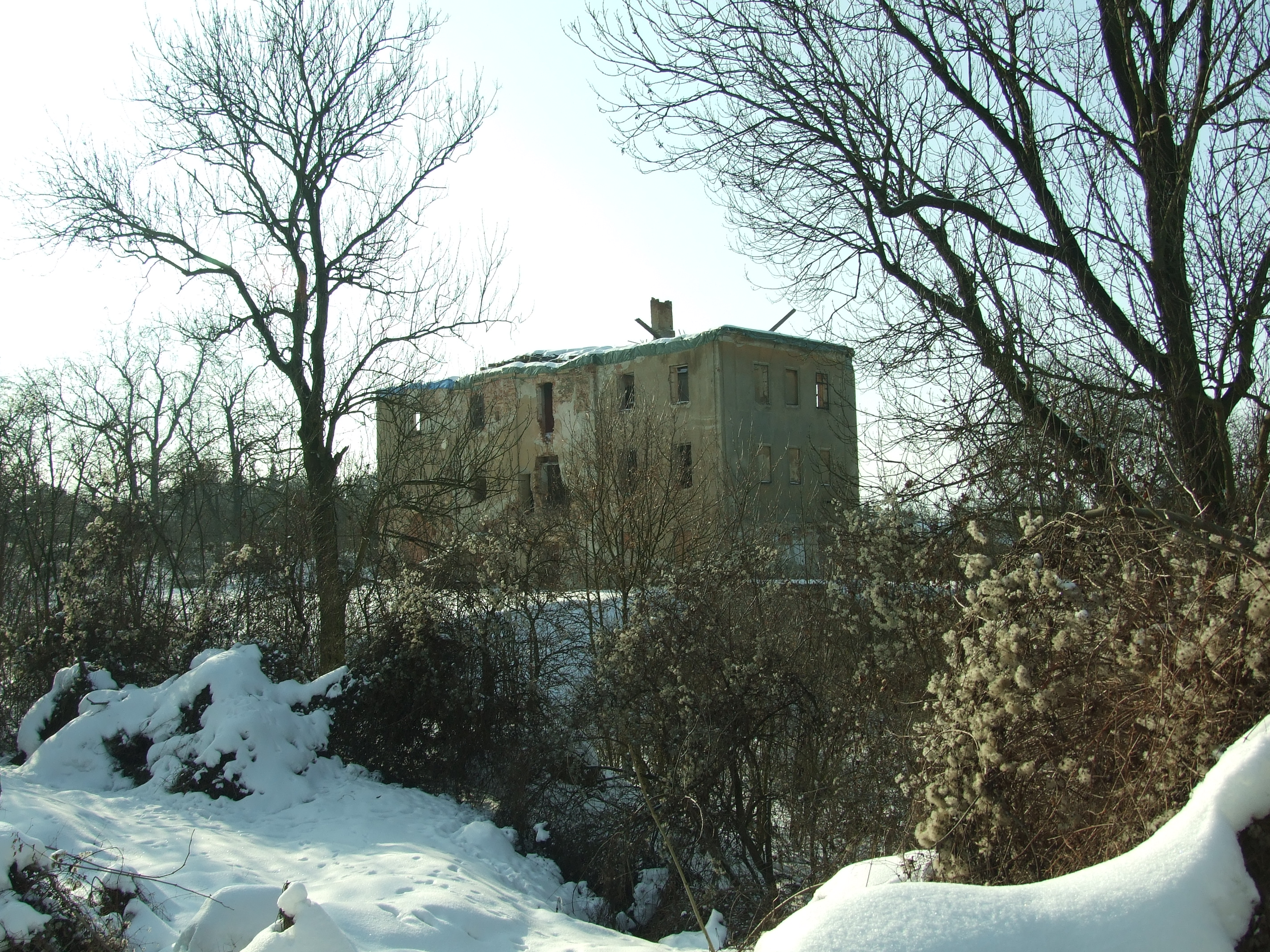 Mansion in Brnky. Brnky is a part of Zdiby, village near Prague, Central Bohemian Region, CZhelp